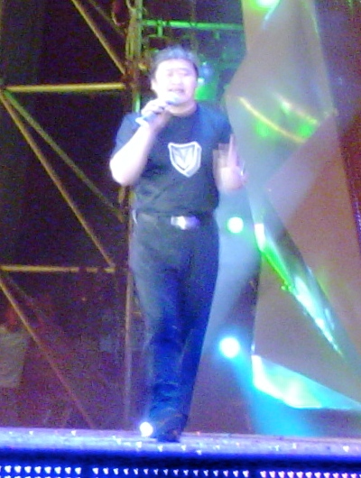 Liu Huan,is a Chinese Mandopop singer and songwriter.